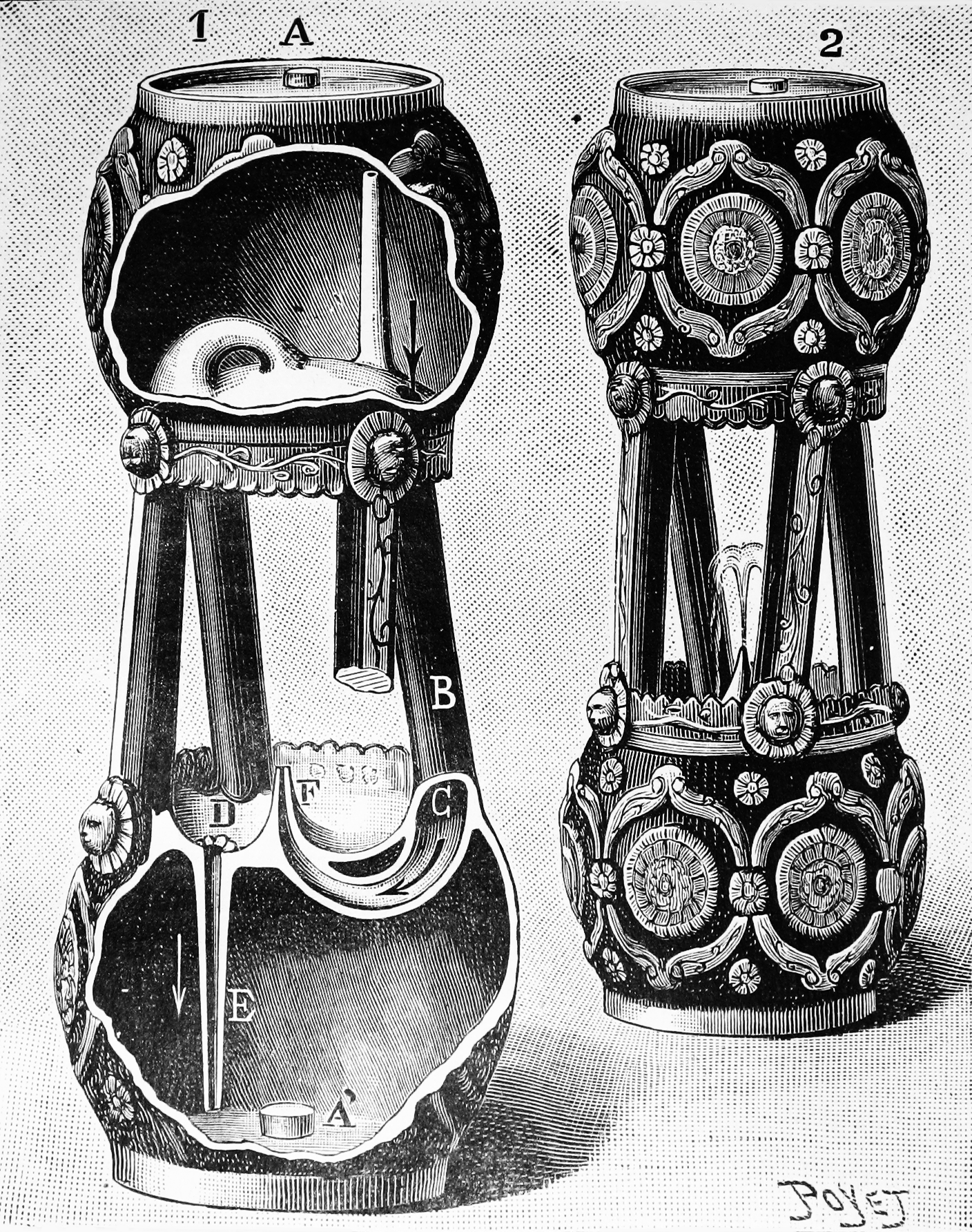 "Tidens naturlære" 1903 af Poul la Cour, Fig. 8. Vanduhr, der angiver en vis Tid. Vandet ligger til at begynde med i den øverste beholder A, herfra løber vandet ned igennem det hule ben B, igennem bøjningen C, og danner et lille springvand ved F. Vandet samles herefter i renden D, løber ned igennem røret E, og samles i A'. Den fortrængte luft i A' løber igennem det andet hule ben og presser mere vand ud. Processen kan gentages ved at vende uret om. Bogen findes digitalt på Tidens Naturlære "Tidens naturlære" (Nature of time) 1903 by Poul la Cour, Ill. 8. Waterclock, indicating a time. At the beginning the water is in the top container A, from here it runs down inside the hollow leg B, through the bend C, and forming a little fountain at F. The water is collected at D, where it runs down in the pipe E, and are collected in A'. The process can be repeated by turning the clock upside-down. The book is digitized at Tidens Naturlære